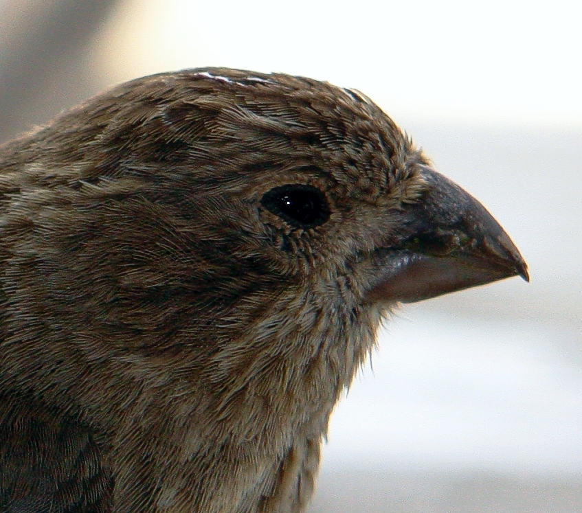 A House Finch showing beak perfectly formed for eating seeds.